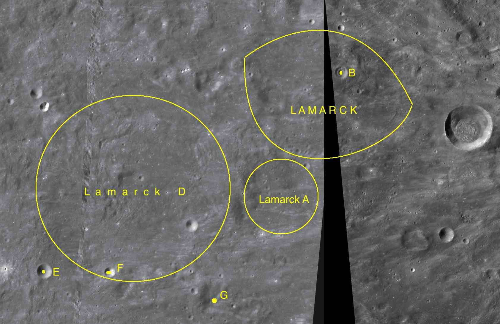 Parts of the charts LAC-91, LAC-92 used for the presentation